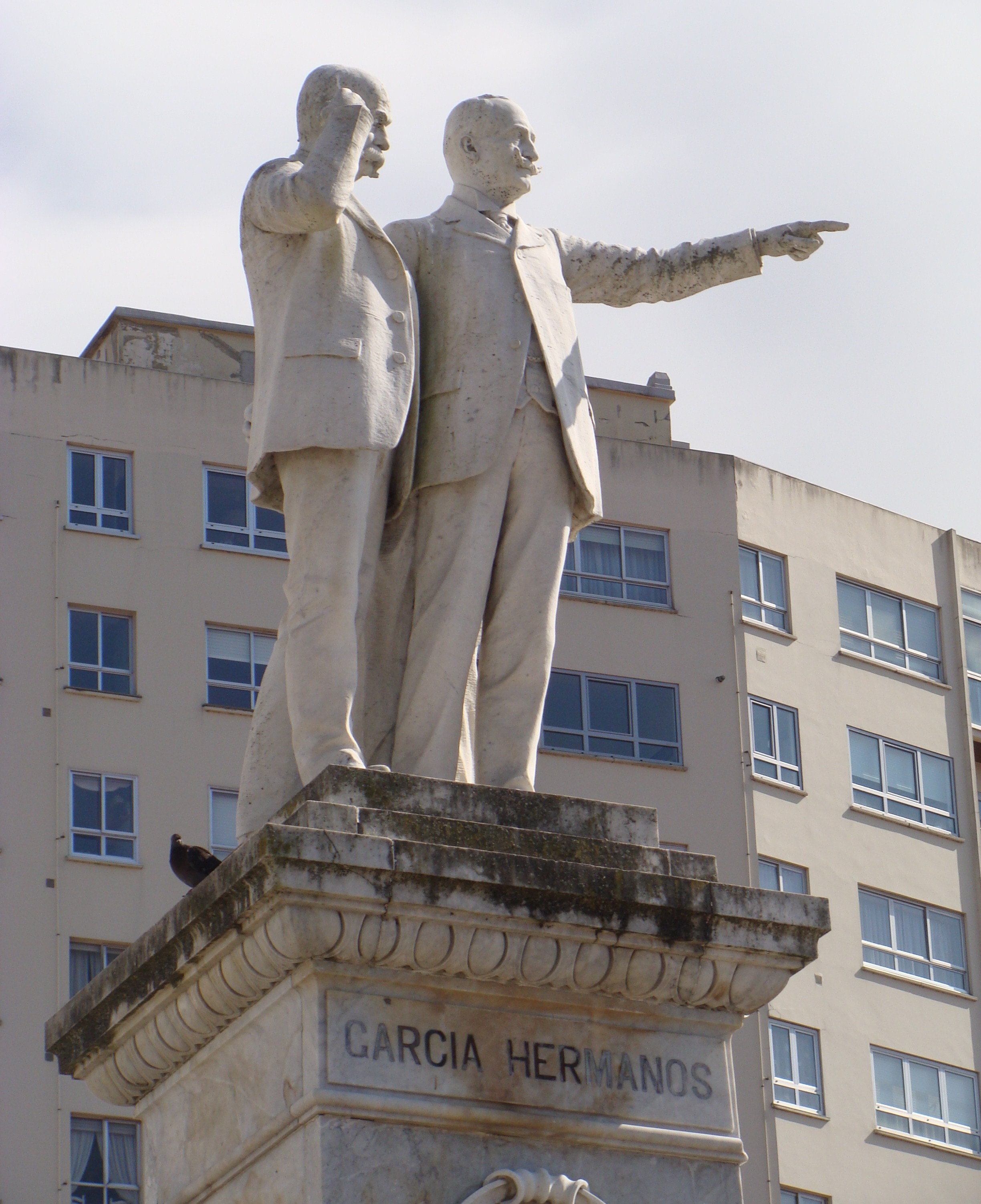 Statues of García Brothers, in Betanzos, A Coruña, Galicia, Spain.